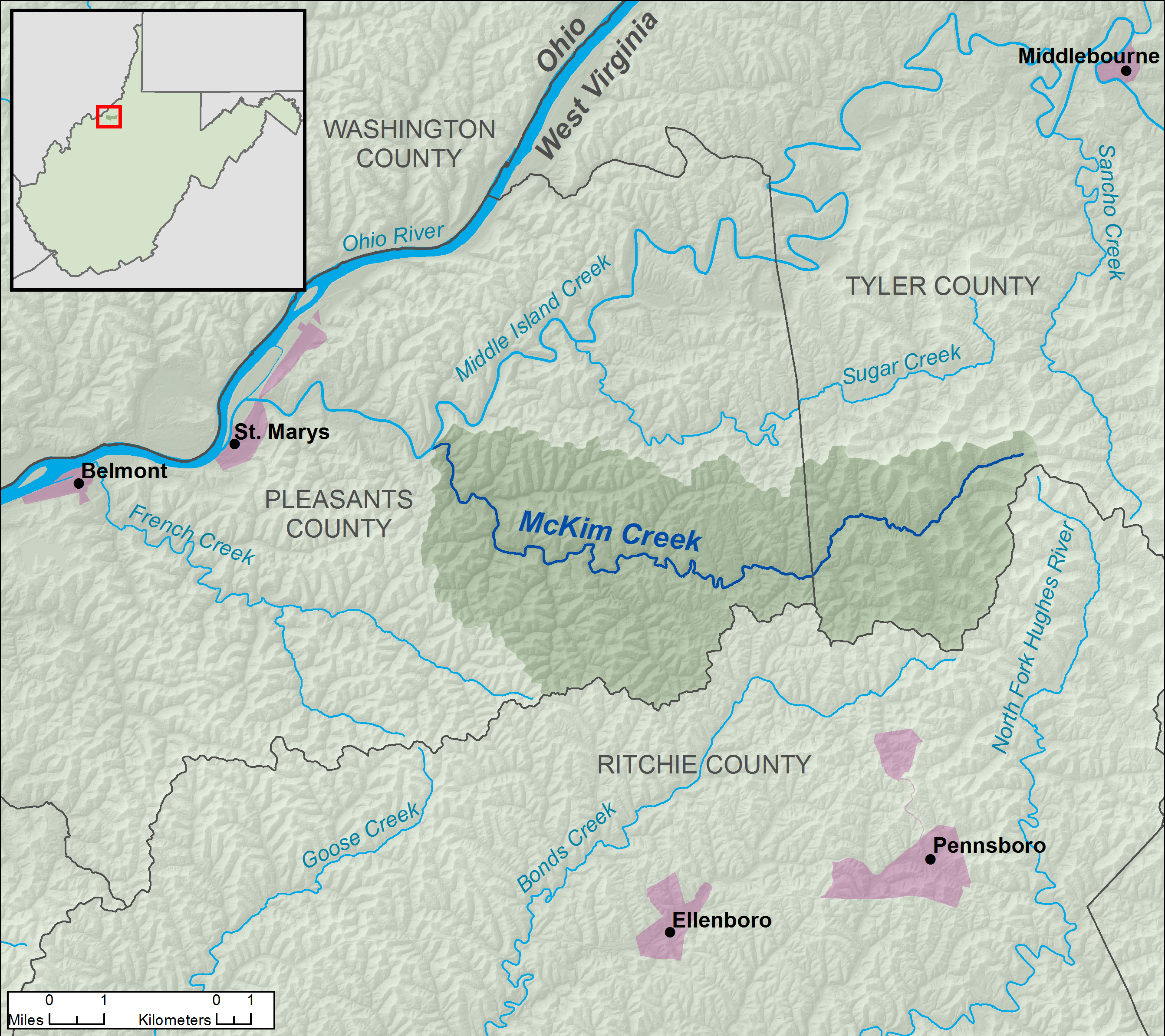 A map of McKim Creek and its watershed (USGS HUC-12 code 050302010508), in Pleasants and Tyler counties in West Virginia.